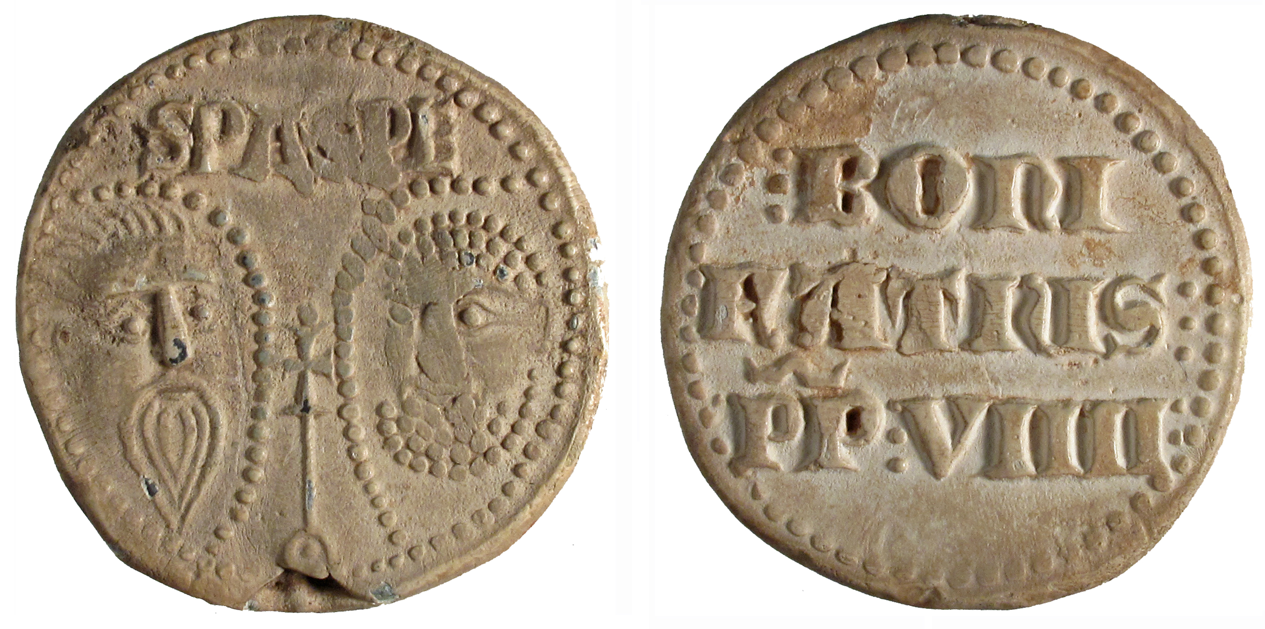 A complete cast lead alloy Papal bulla of Bonifatius IX (1389-1404). The obverse depicts the heads of St. Paul and St. Peter facing each other with a sceptre in between them. The two heads are surrounded by a semi-circular border of pellets, which then connects to a larger pelleted border around the perimeter of the entire bulla. The legend above the busts reads SPASPE. The reverse depicts the name of the Pope. The legend reads :BONI/FATIVS/ PP:VIIII (written in three lines). This name refers to Bonifatius IX (1389-1404 AD). The lead is now whitish-grey in colour. Ribbon holes can be clearly seen at the top and bottom. The bulla measures 37.3 mm in diameter, 4.8 mm thick, and weighs 44.73 grams. Papal bullae are lead seals which were attached to documents known as bulls, issued by the Papacy. For a close example on the database, cf. SUSS-2F1195; subsequently published in Sussex Archaeological Collections No. 145 (Medieval Seal Matrices and Papal Bullae from Sussex, 2003-2007. Author: Liz Andrews-Wilson and Christopher Wittick).